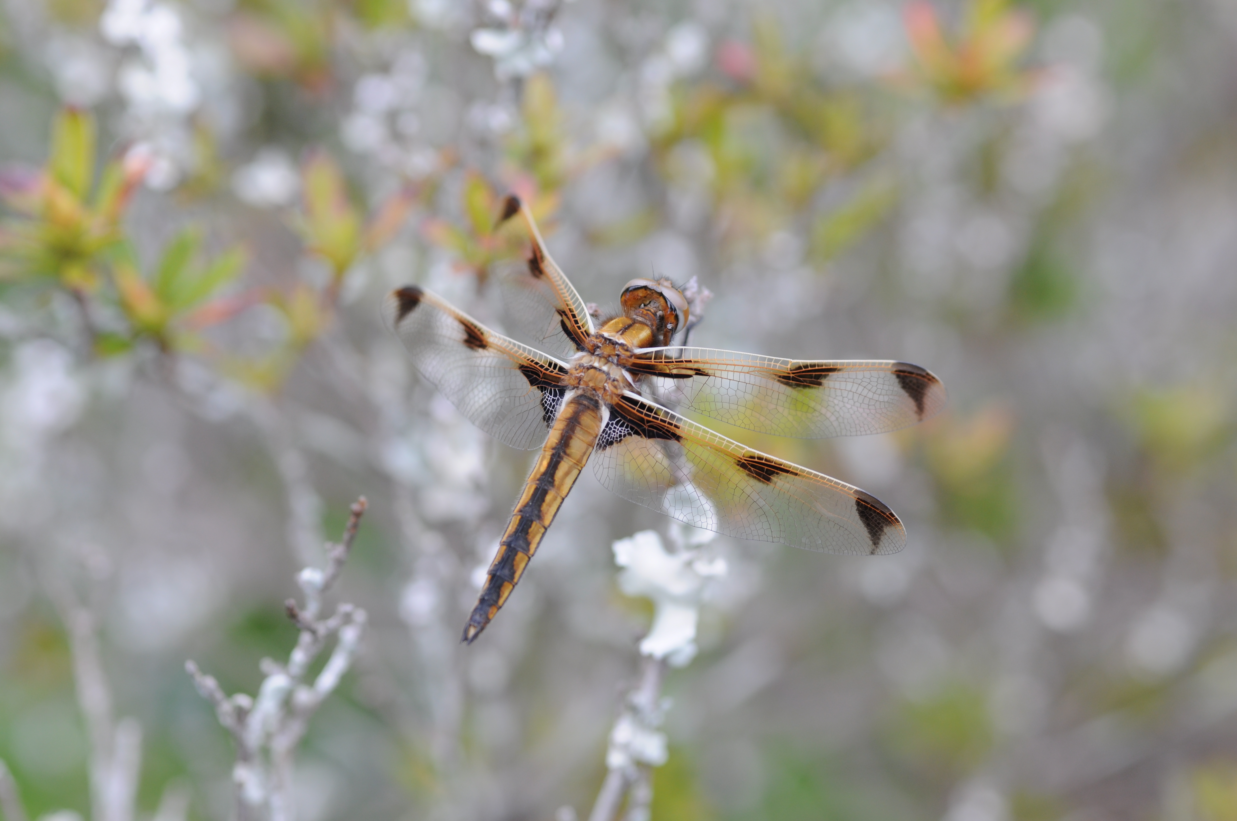 Libellula angelina